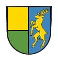 Old coat of arms of Stegen (Dreisamtal)